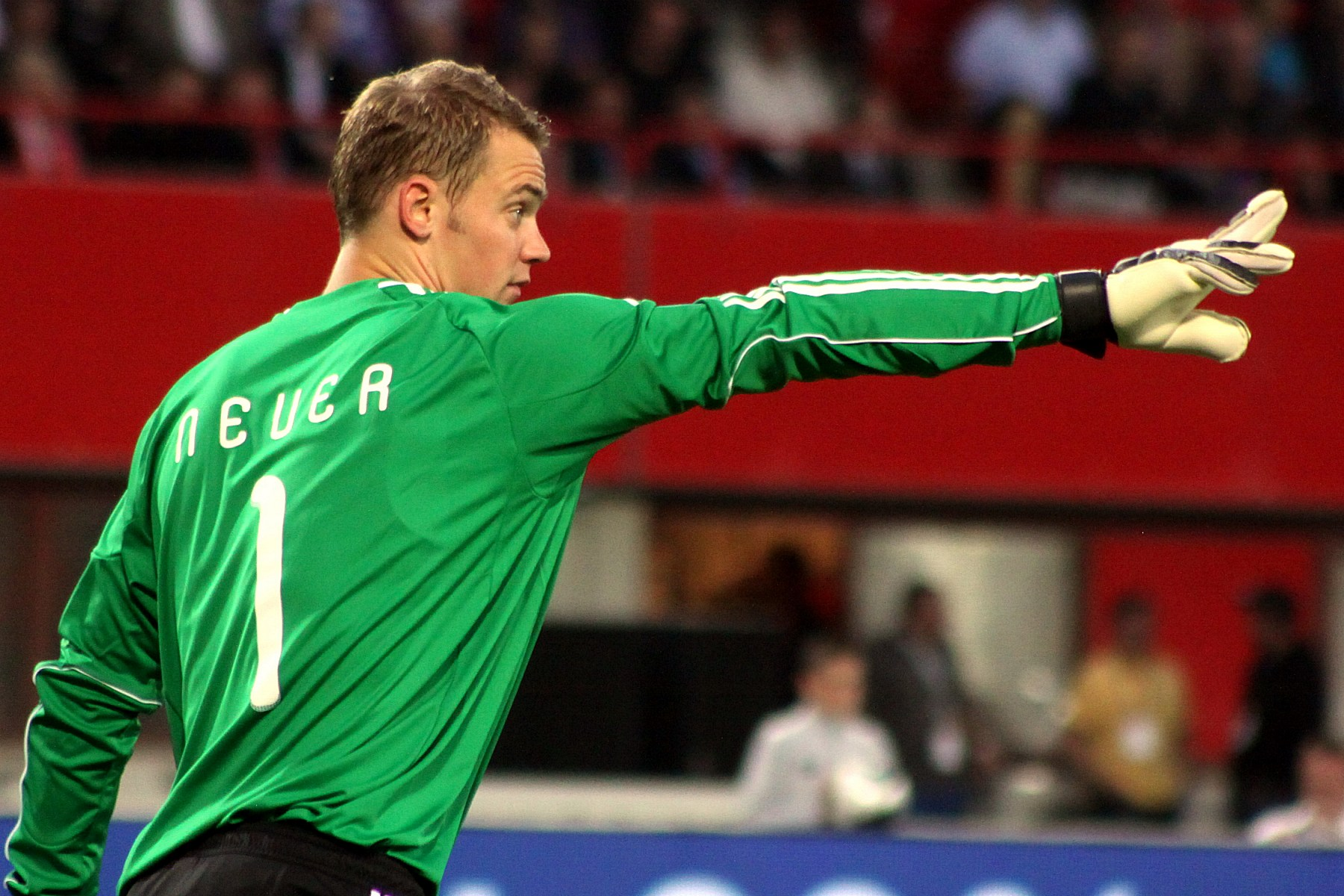 Manuel Neuer (FC Schalke 04 / FC Bayern München), german national football team